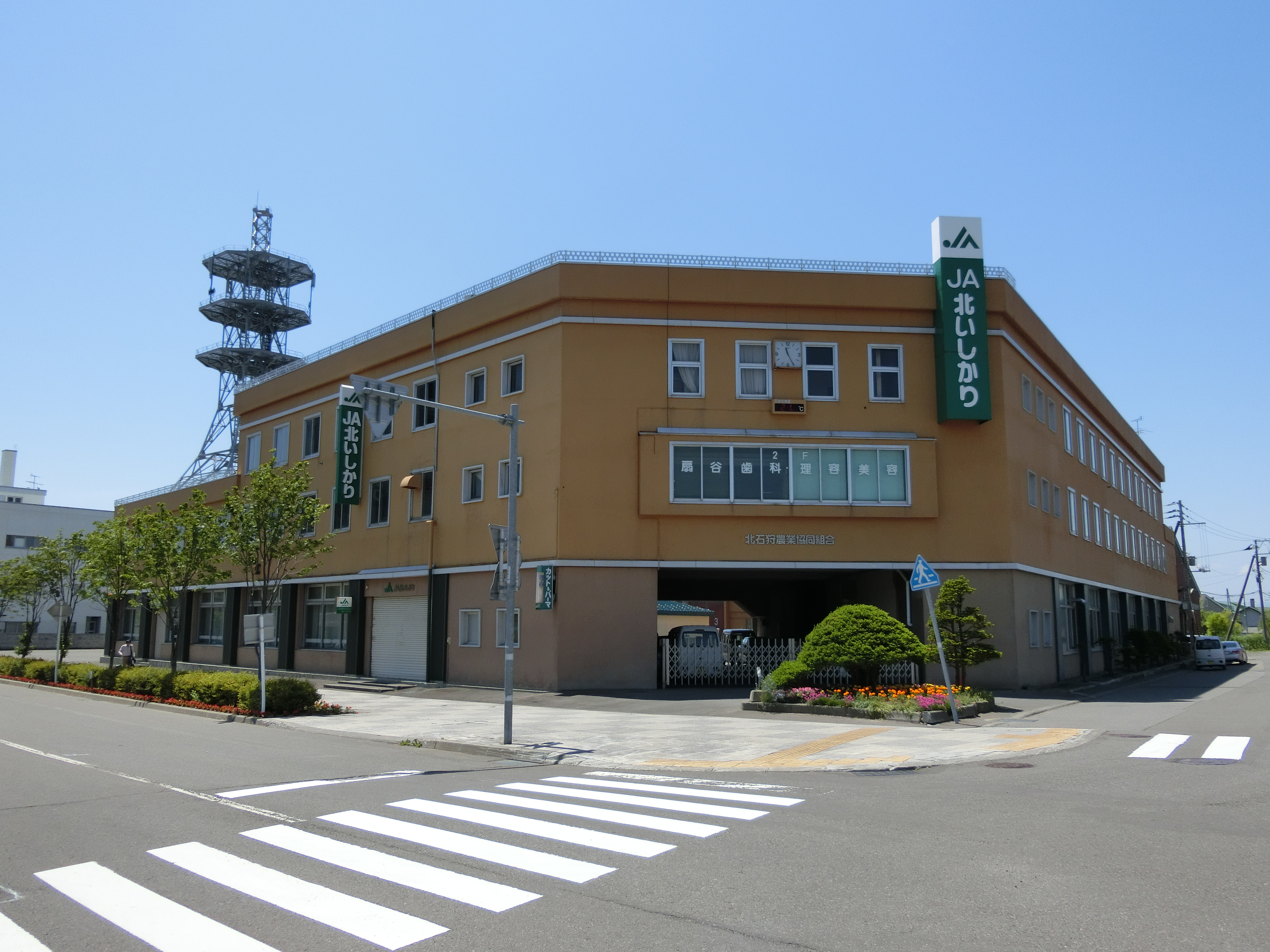 Headquater of JA Kita-Ishikari located in Tobetsu, Ishikari District, Hokkaido.